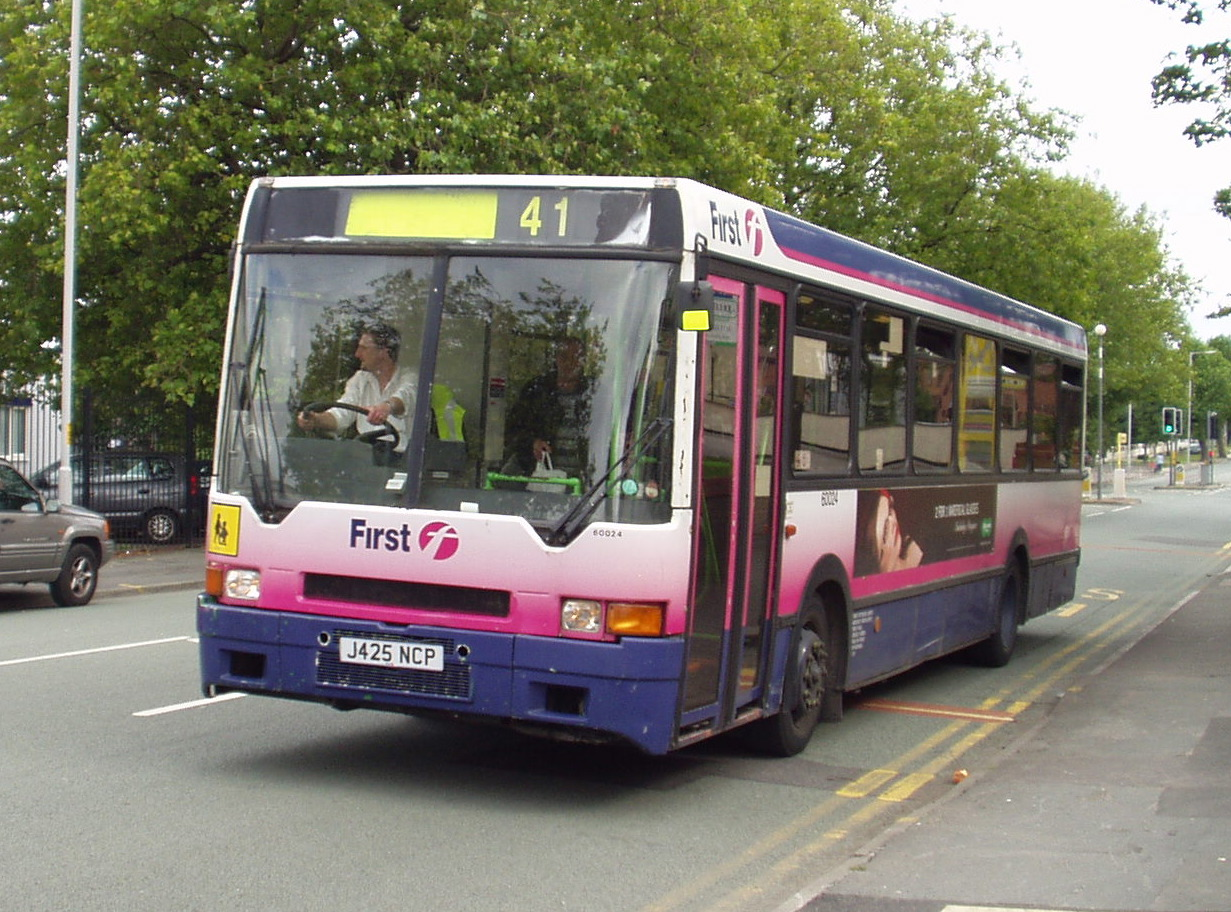 First Chester & The Wirral DAF SB220 bus with Ikarus bodywork in Rock Ferry on route 41